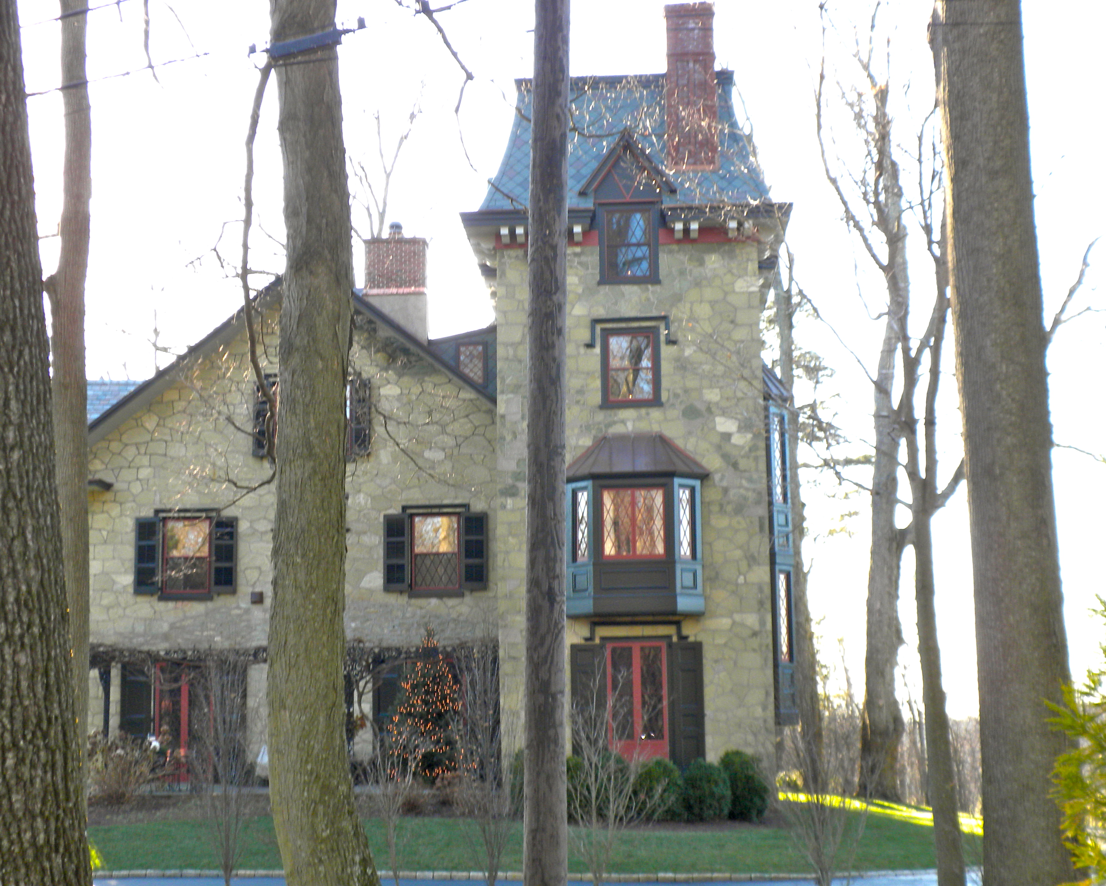 Edgewood in Chester County, PA near 2 Friends Meetinghouses. On NRHP. I donate this to the public domain.